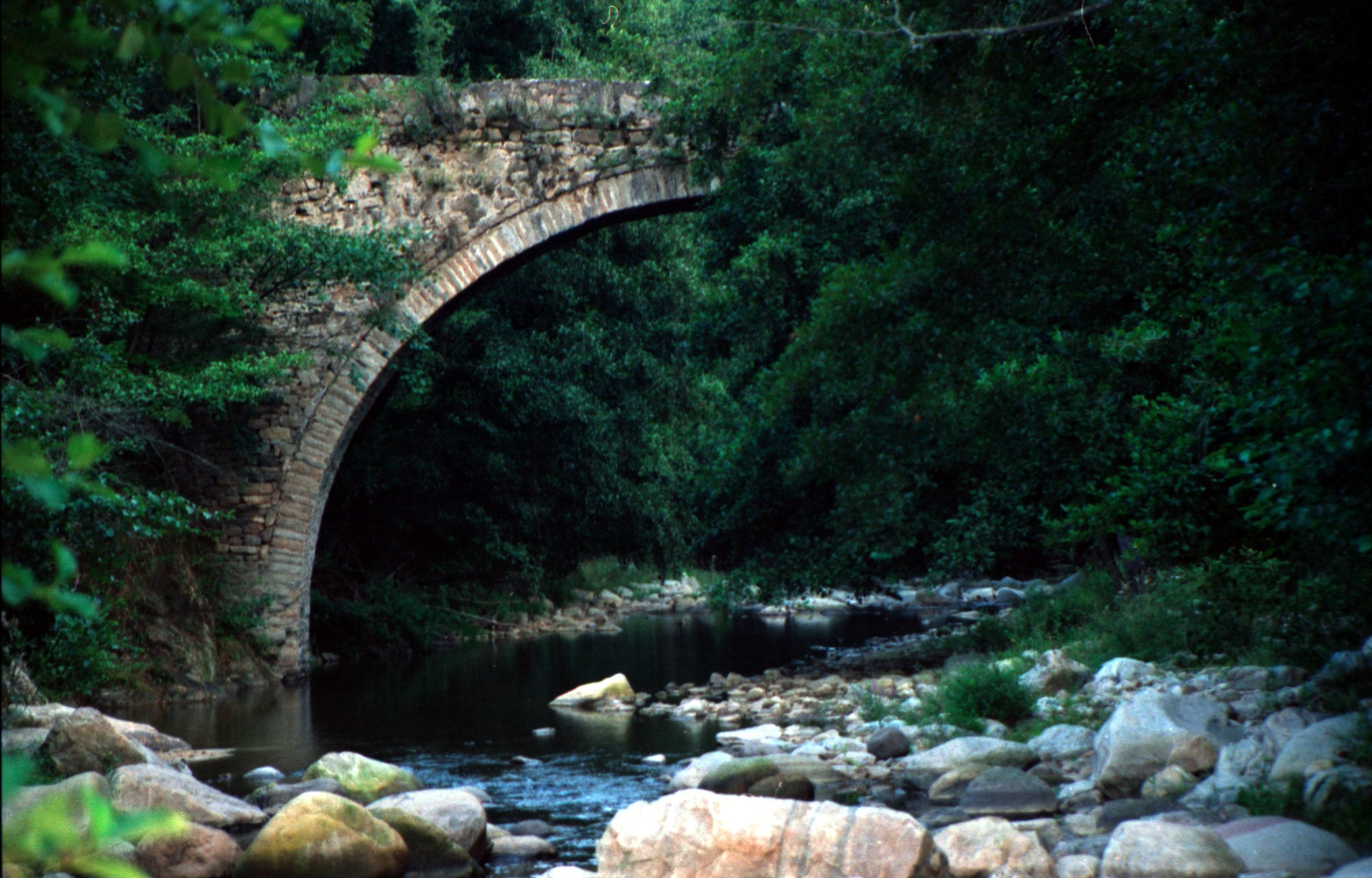 Old stone bridge in the forests of Xanthi, Greece.